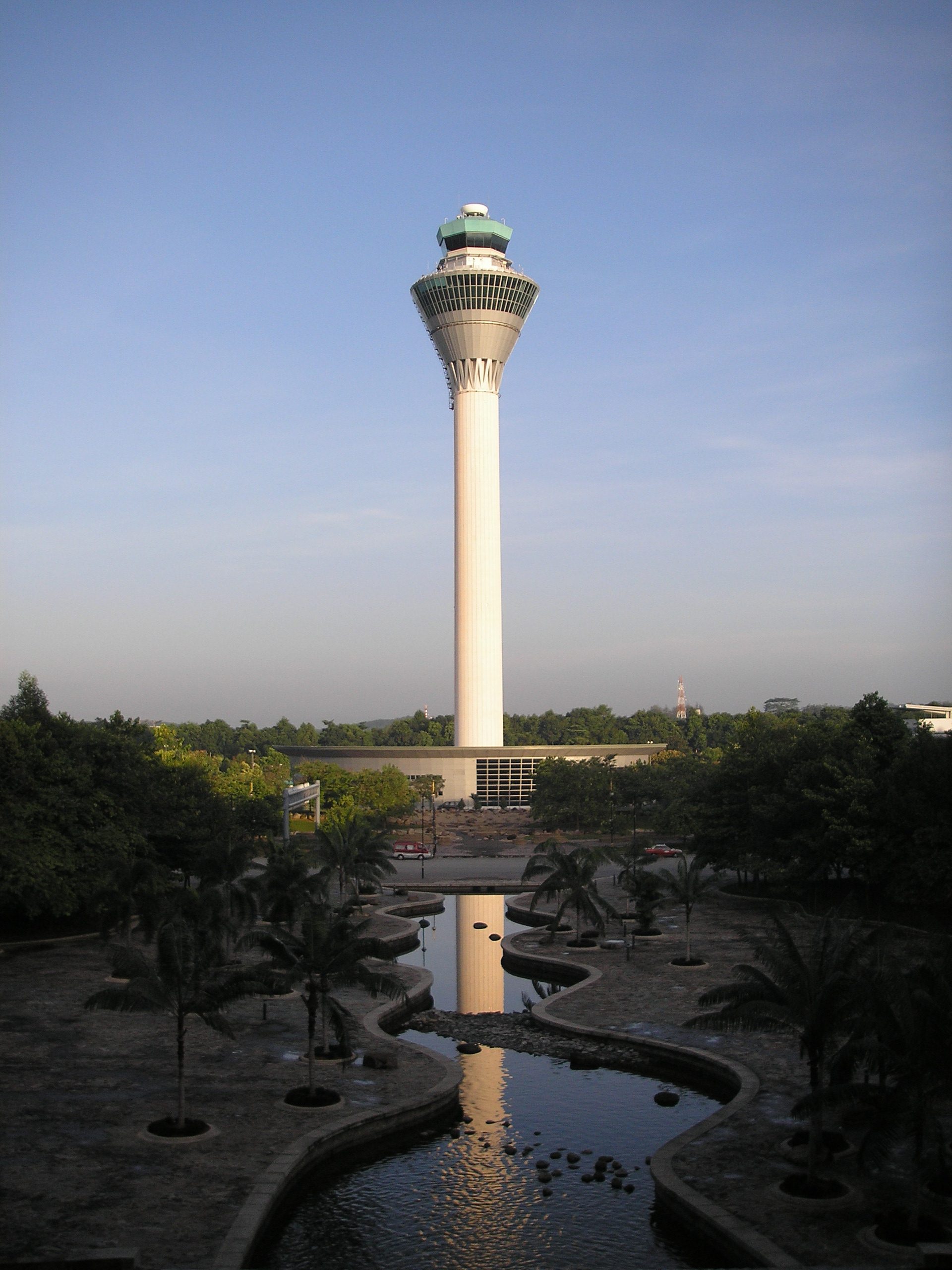 The control tower at Kuala Lumpur International Airport.